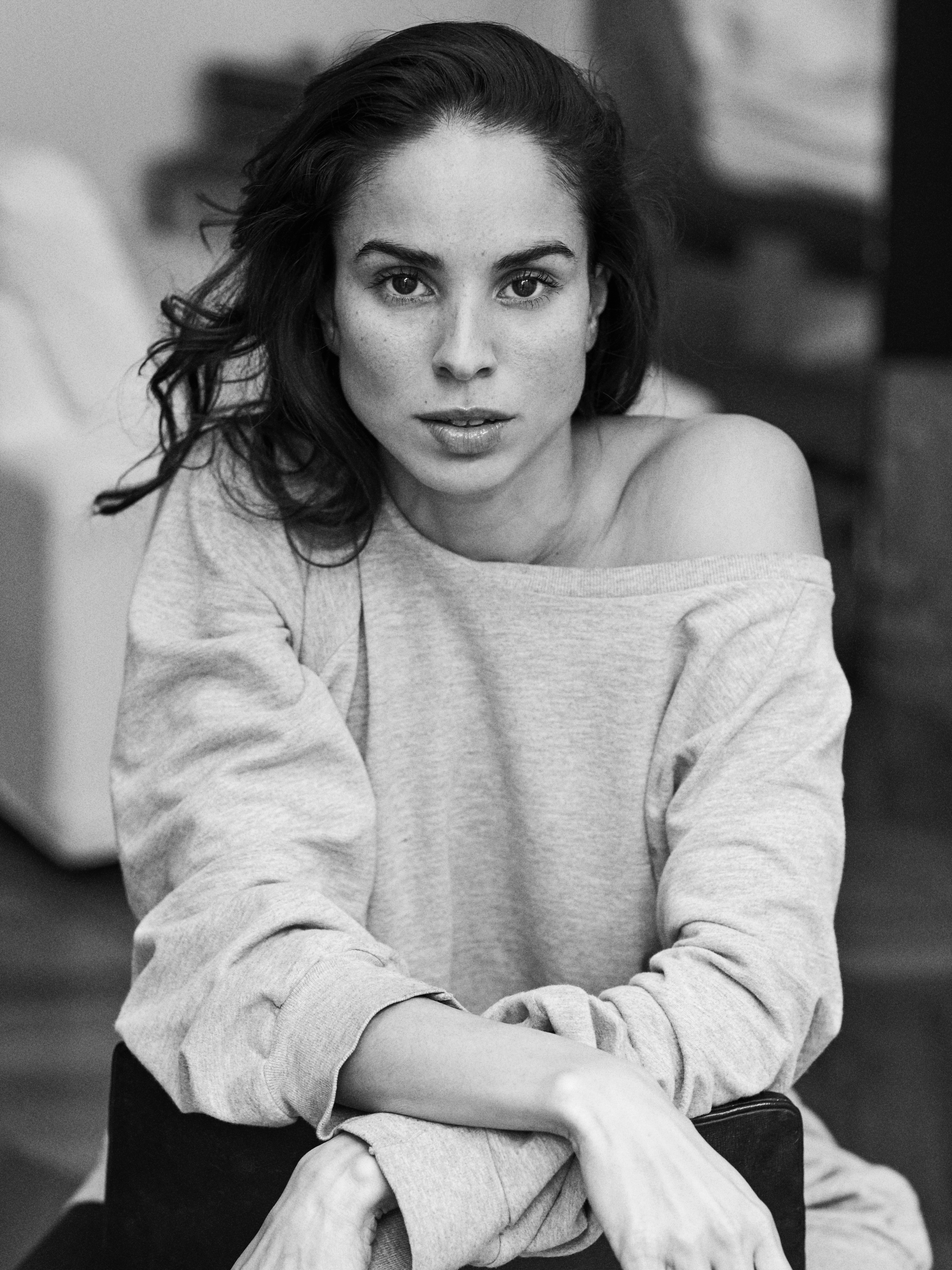 Portrait of Tamara Fernando